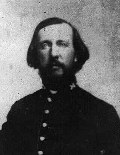 Young Marshall Moody, Civil War Photograph Collection, Library of Congress.